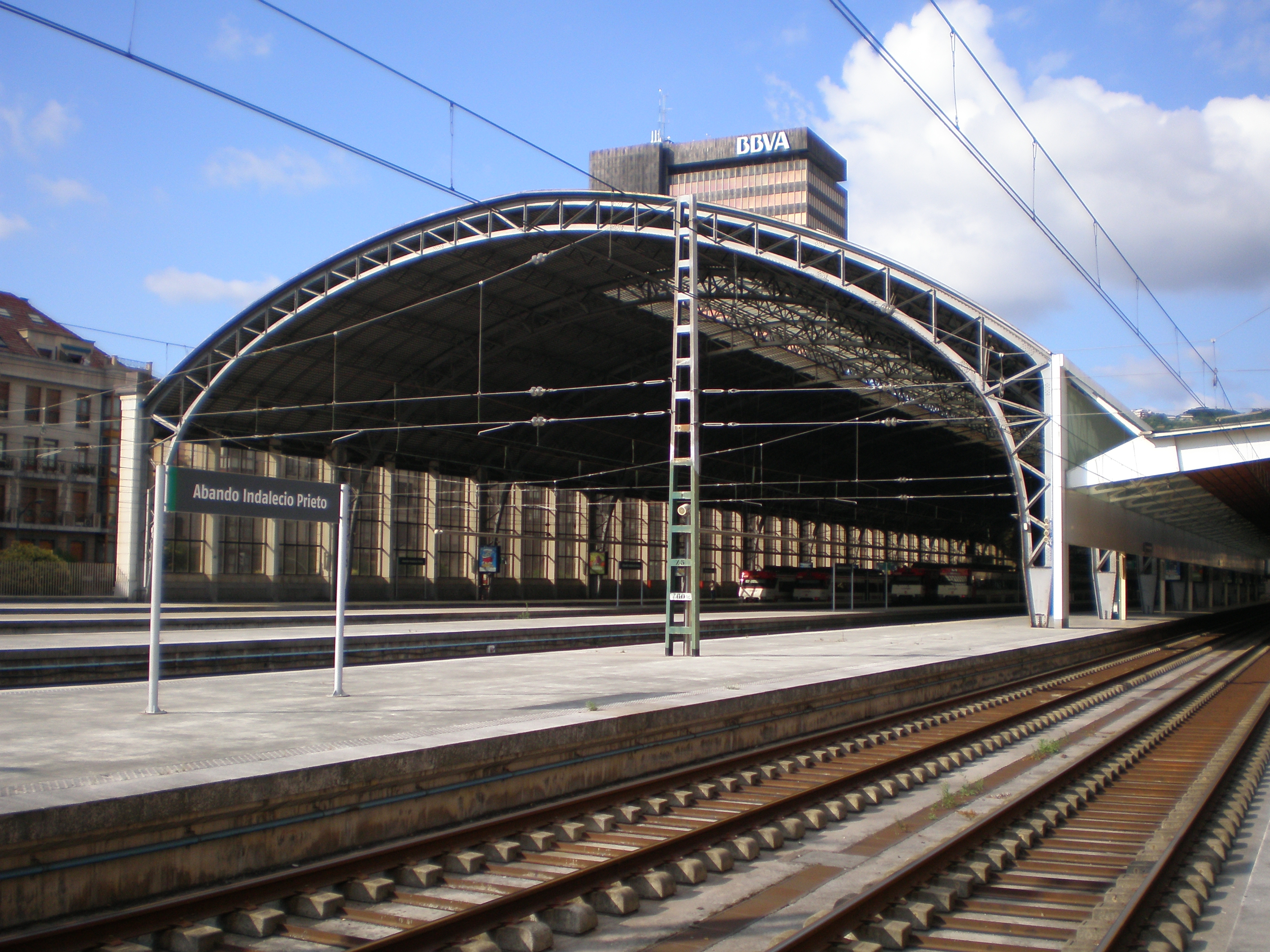 Bilbao Abando Indalecio Prieto railway station (Bilbao, Basque Autonomous Community, Spain).